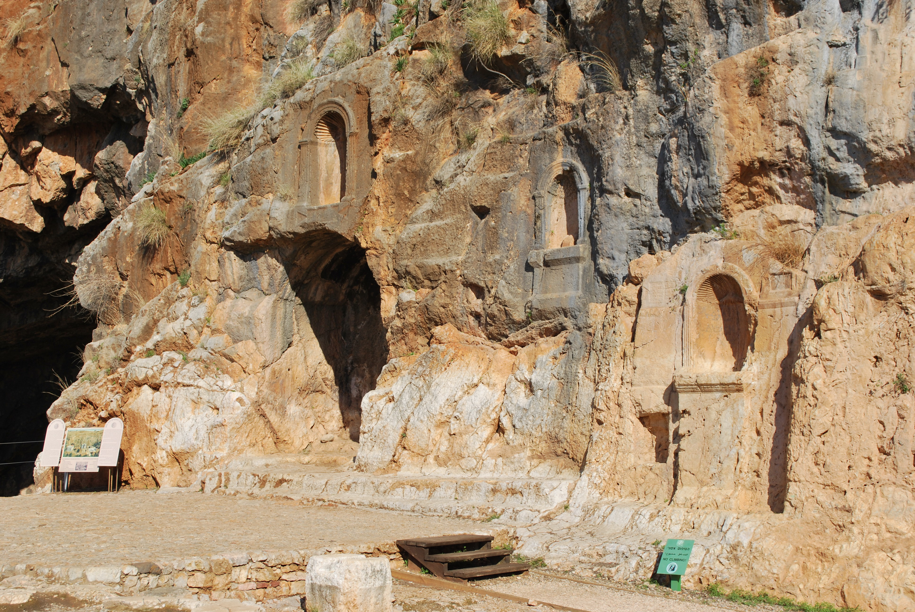 Banias, Israel named for the Canaanite god Pan. Renamed Caesarea Philippi after Herod Philip, son of Herod the Great. This is the site of Peter's Confession--"Who do men say I am?" Mark 8:27-33; Luke 9:18. Ironically? Intentionally. Jesus begins his ministry in the heart of Paganism. Banias